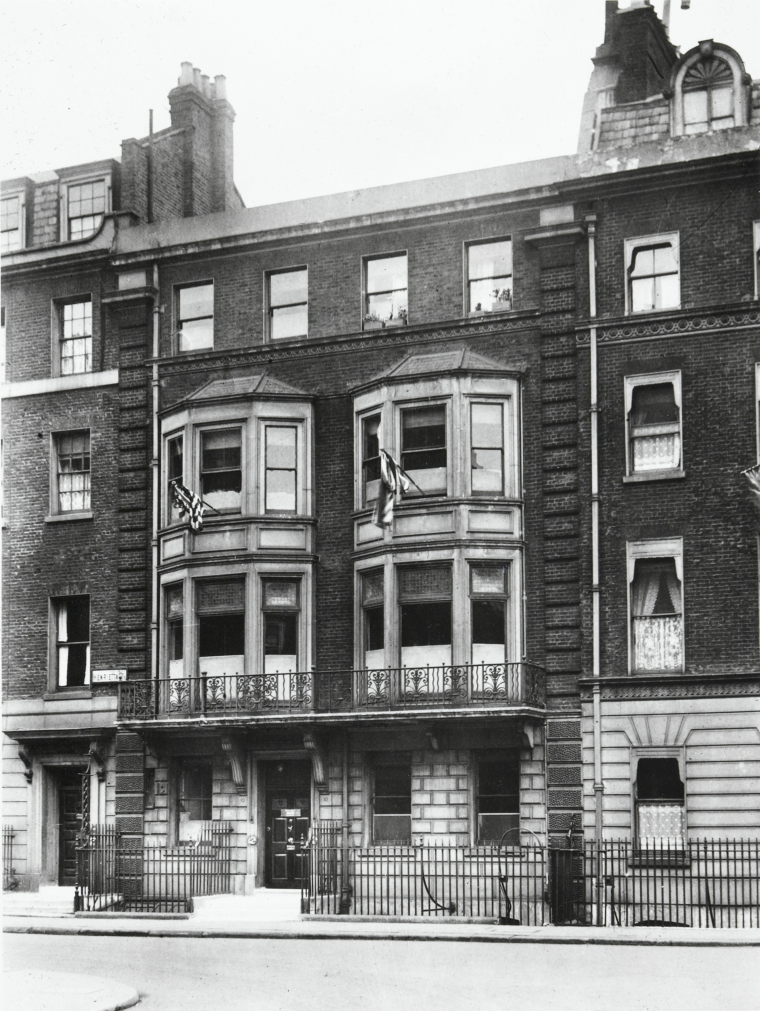 10 Henrietta Street, first home of the Wellcome Bureau of Scientific Research. Archives & Manuscripts Keywords: Wellcome Foundation Ltd